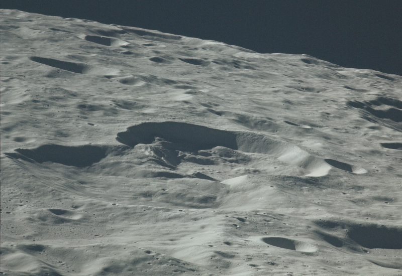 Oblique view of Van Gent X crater (center) and Van Gent (lower left), facing northeast.